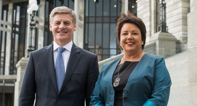 Bill English and Paula Bennett on the steps of the New Zealand Parliament.